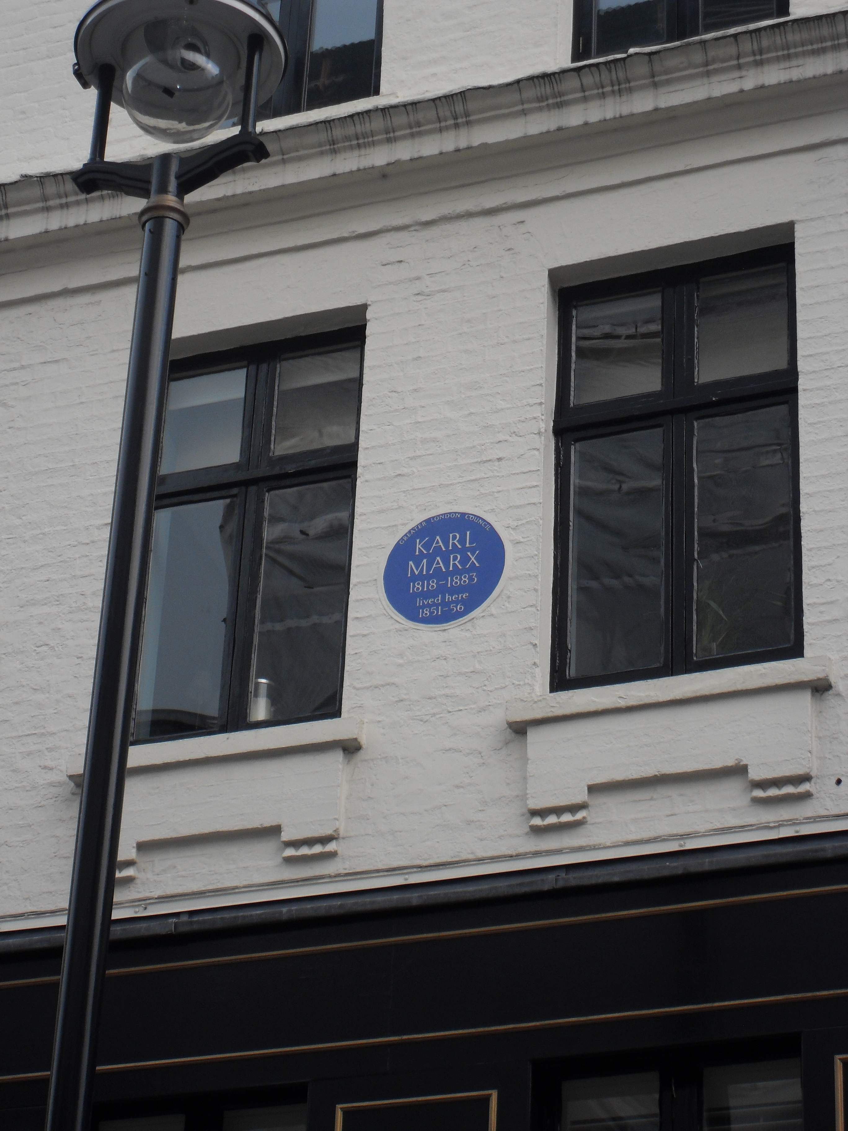 Restaurant Quo Vadis at Dean Street 28, London. Between 1851-1856 Karl Marx lived on the top floor of this building, with his wife and maid (both pregnant by him) and four children, after he was expulsed of his two previous addresses due to non payment of the rent. The blue commemorative plaque at the builing remembers "Karl Marx (1818-1883) lived here 1851-56".